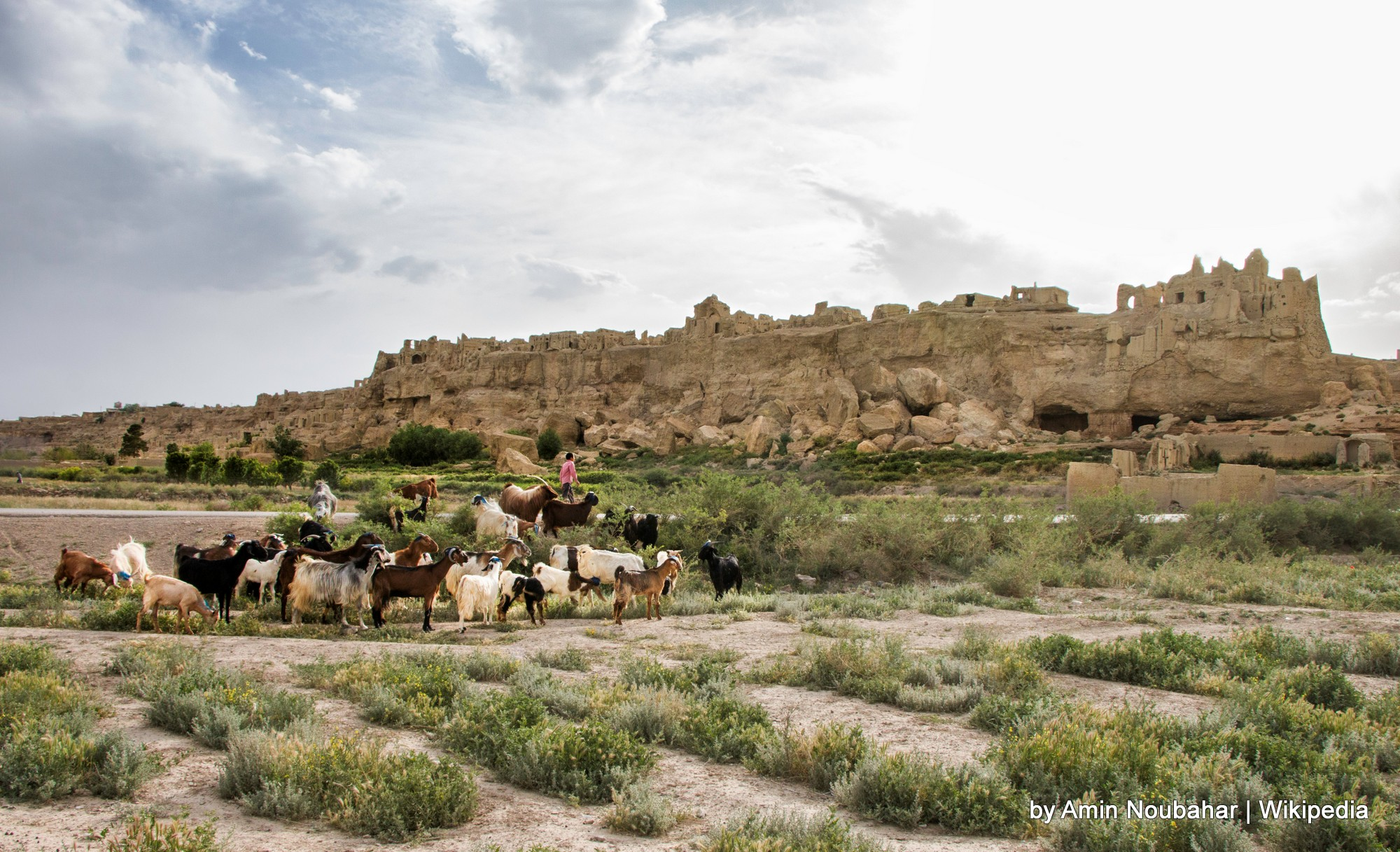 Historical fortress of Izadkhast | 2019-05